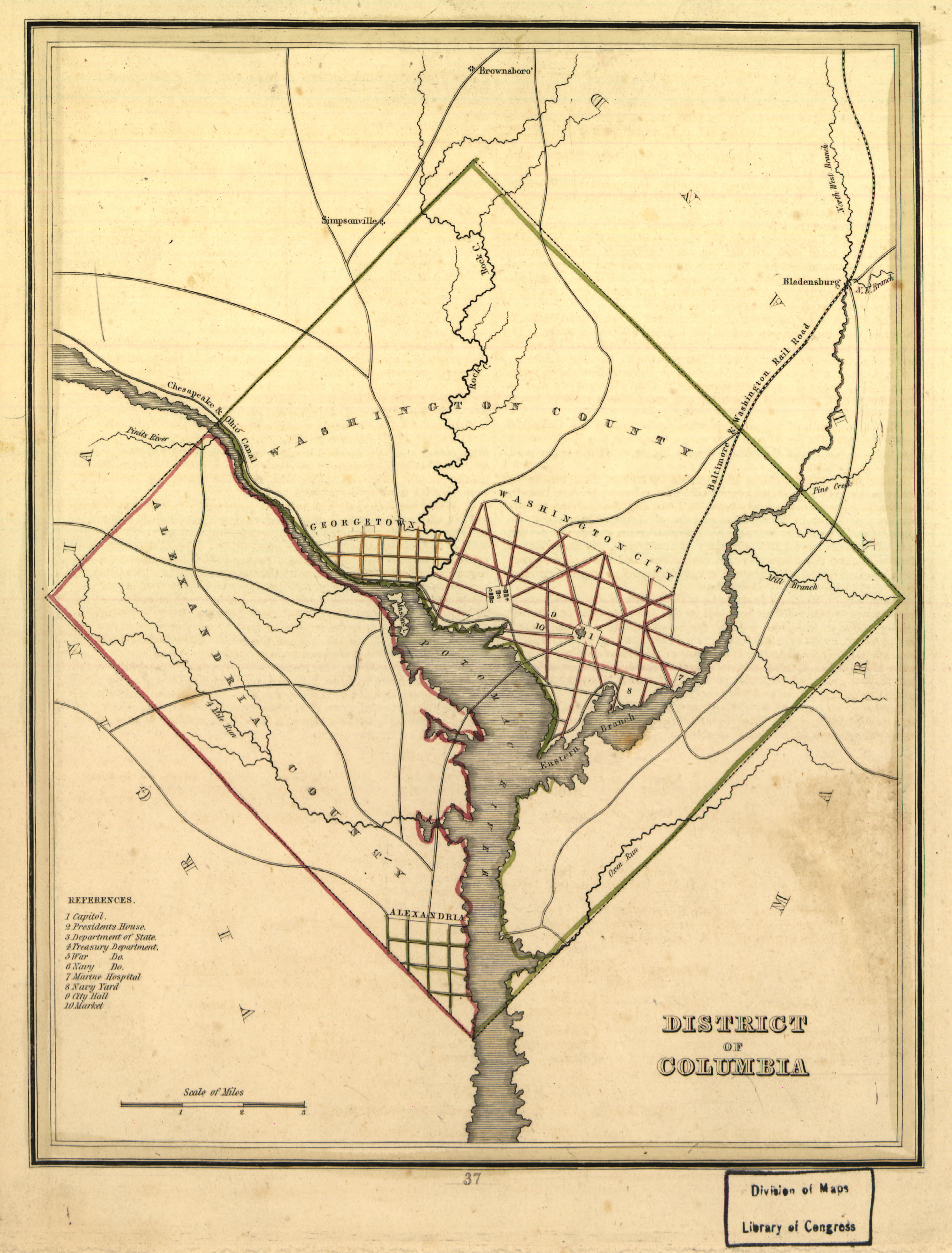 Map of the District of Columbia including Washington City, Georgetown, Washington County, Alexandria City, and Alexandria County. Also depicts major buildings, roads, and points of interest. Library of Congress, Geography and Maps Division.